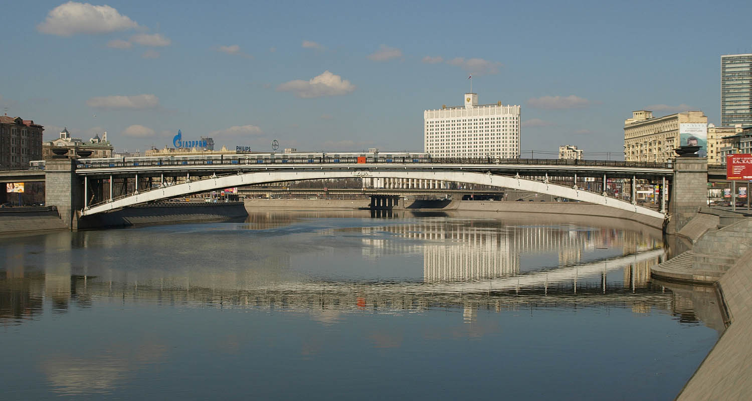 Smolensky Metro Bridge, Moscow